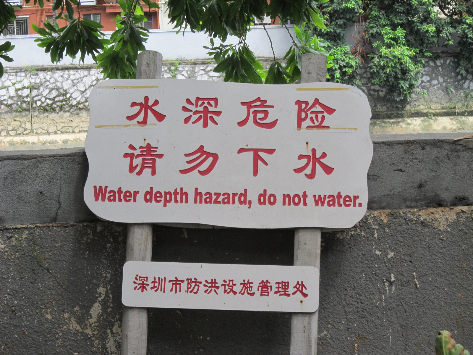 A Chinglish warning sign meaning "Danger! Deep water, keep out"